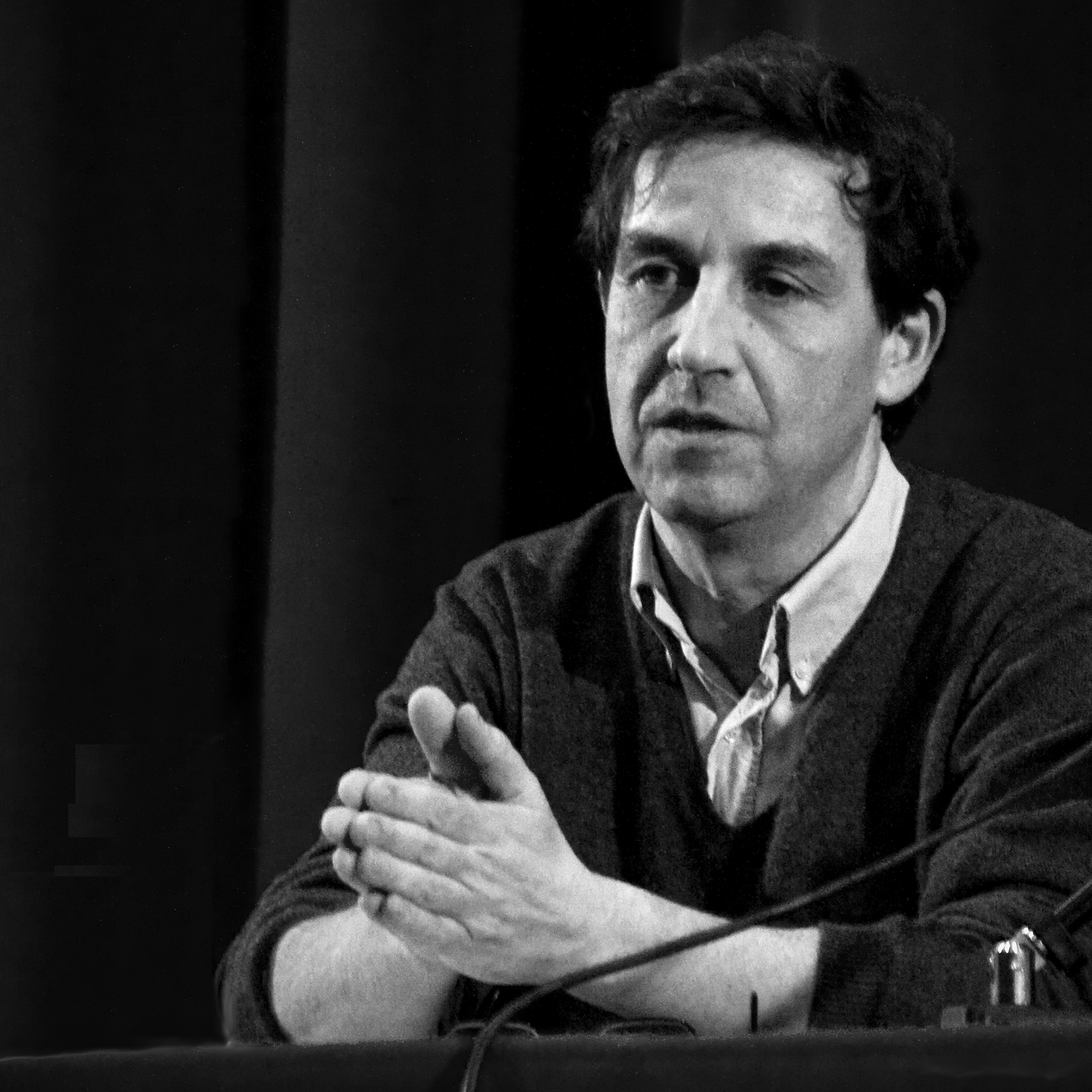 Emmanuel Todd, between a meeting in Montpellier.